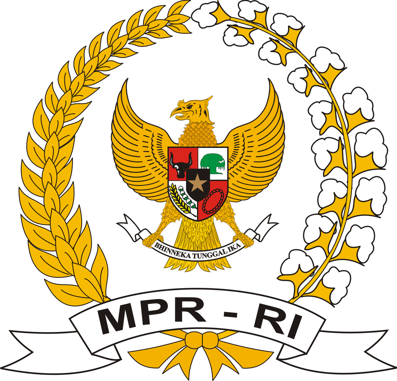 Logo of People's Consultative Assembly of the Republic of Indonesia